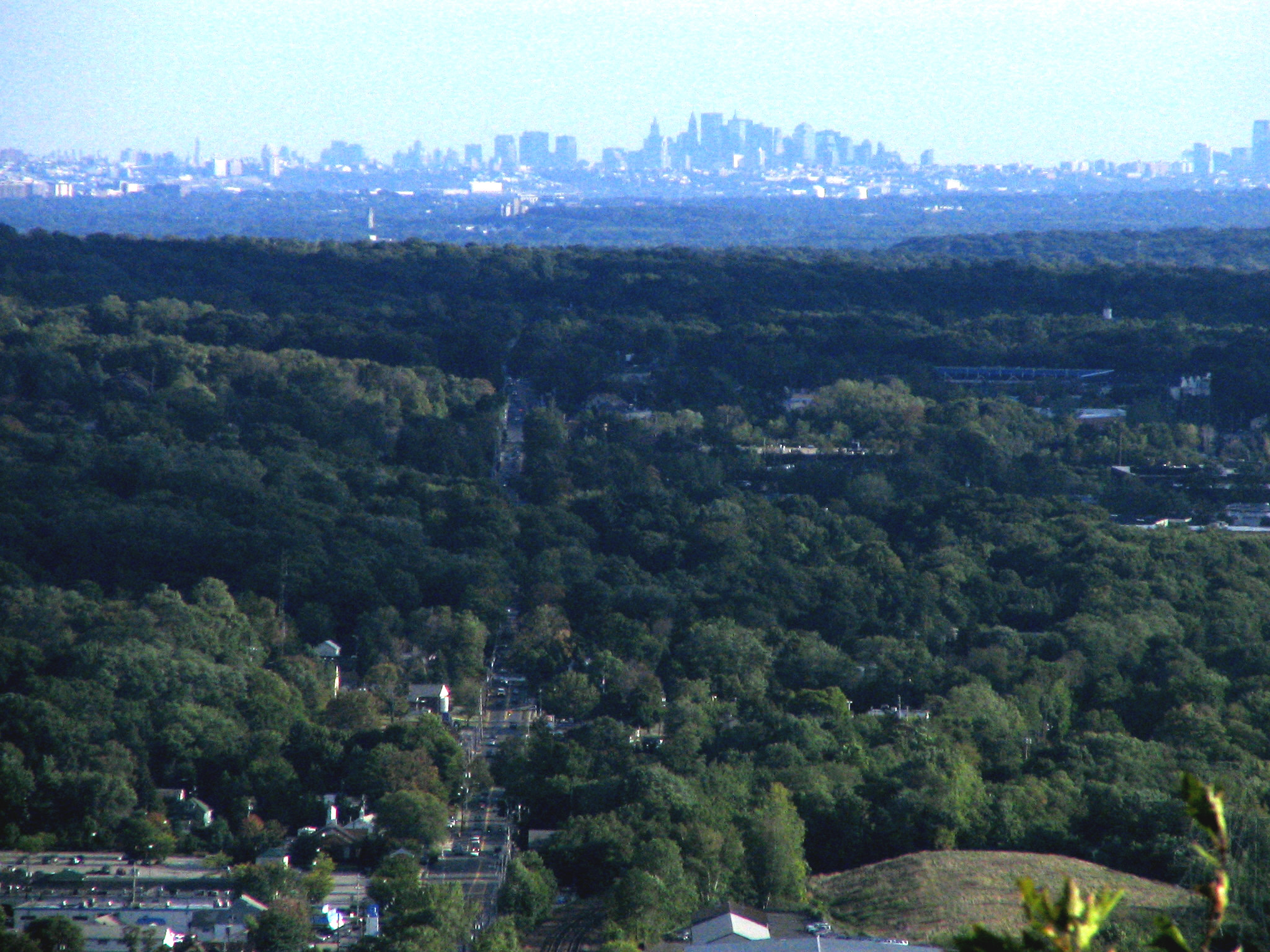 Franklin Turnpike in Mahwah, New Jersey with Manhattan skyline. Taken by User:Mwanner, 29 September, 2005.